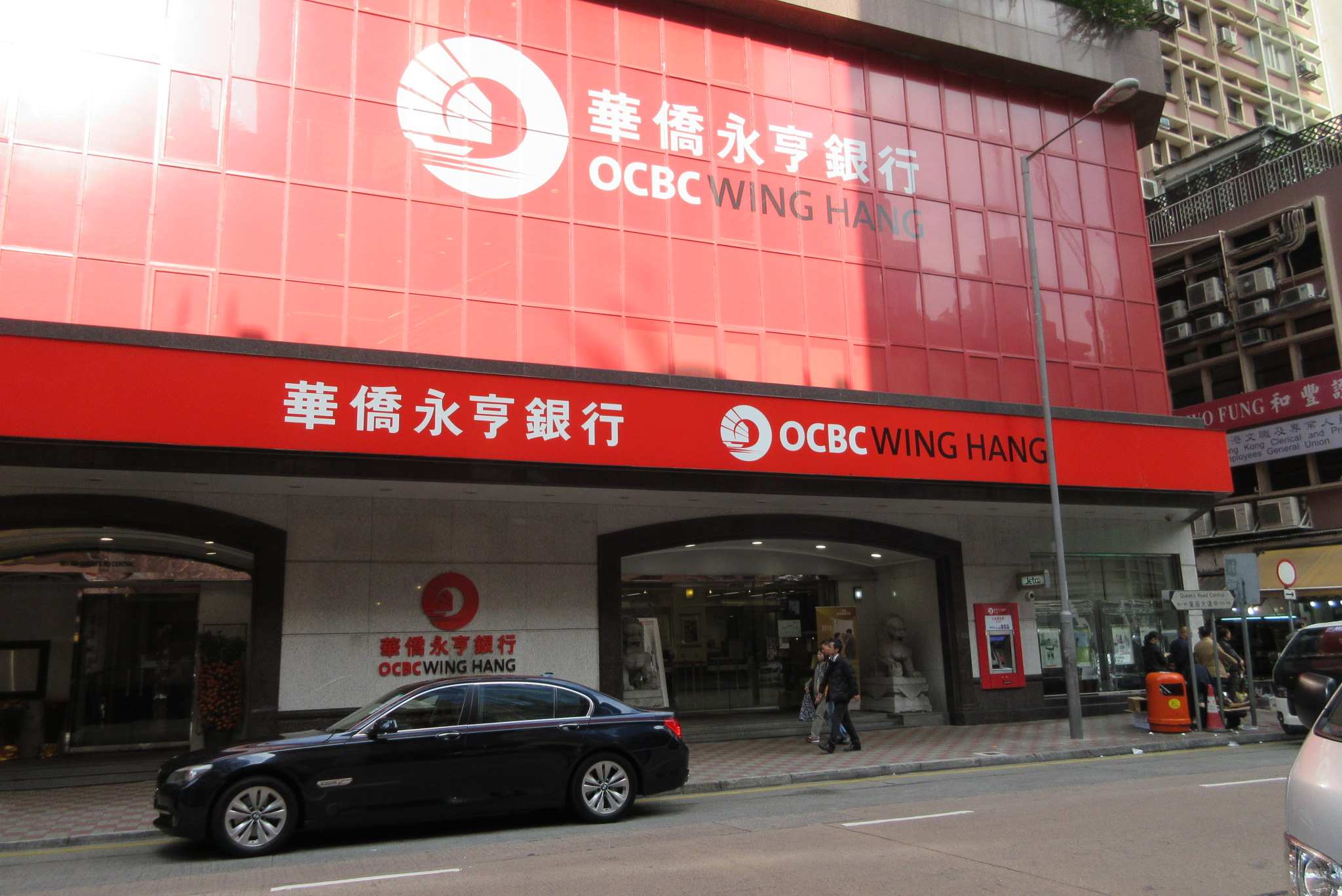 HK SW 上環 Sheung Wan 皇后大道 Queen's Road 華僑永亨銀行 OCBC Wing Hang Bank Building shop in Feb 2017